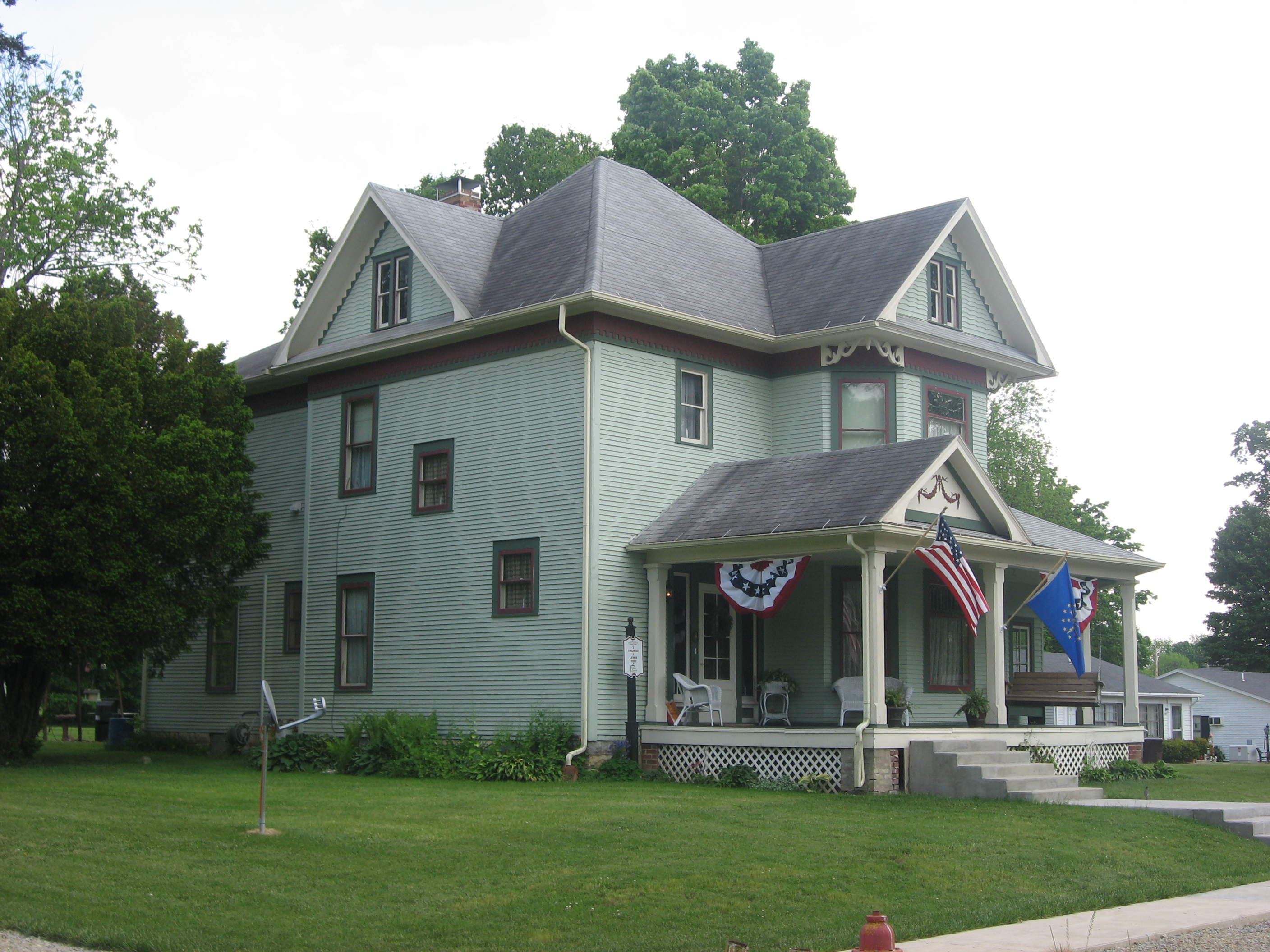 Front and northern side of the Thomas J. Lewis House, located at 105 S. Arnold Street in Roann, Indiana, United States. Built in 1903, it is listed on the National Register of Historic Places, and it is part of a Register-listed historic district, the Roann Historic District.